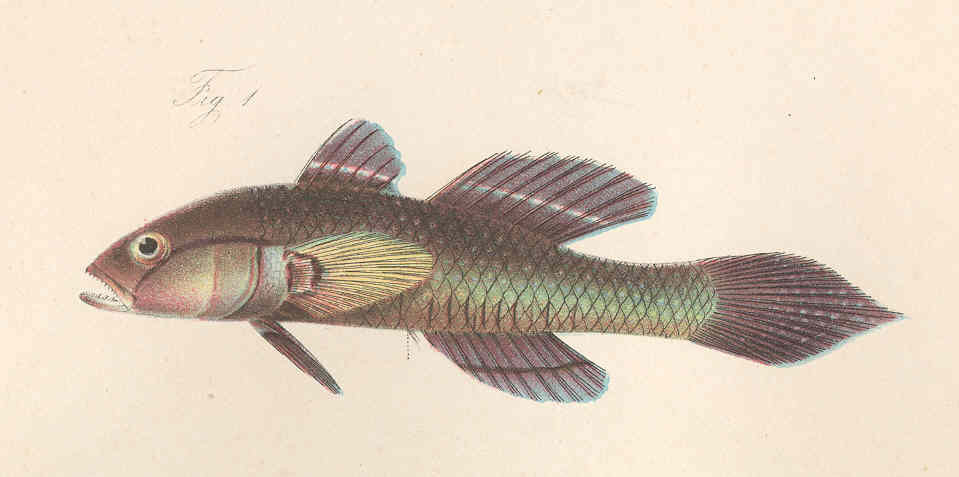 Subject: Gobiidae, Gobius Tag: Fish